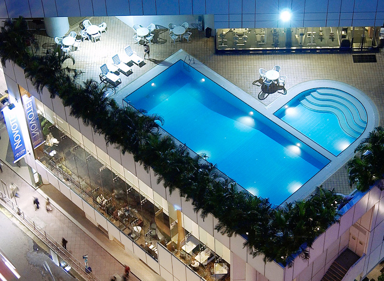 Novotel Century Hong Kong hotel is located in the bright and bustling heart of the Victoria Harbour. Surrounded by boutique shops, tiny yet delicious eateries and authentic local markets, as well as being convenient to the business and convention district, Novotel Century is the perfect base for exploring this colorful and cosmopolitan metropolis. The hotel seamlessly blends tradition and modernity in Hong Kong.